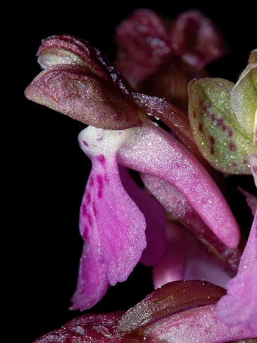 Orchis spitzelii, single flower, side view, Vercors, France